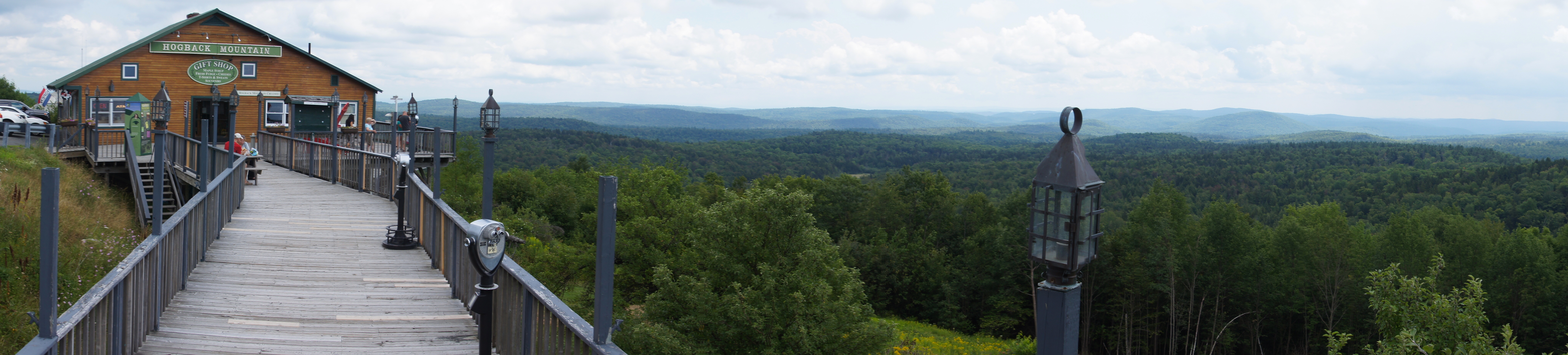 View from Hogback Mountain Gift Shop along Highway 9, Vermont, USA